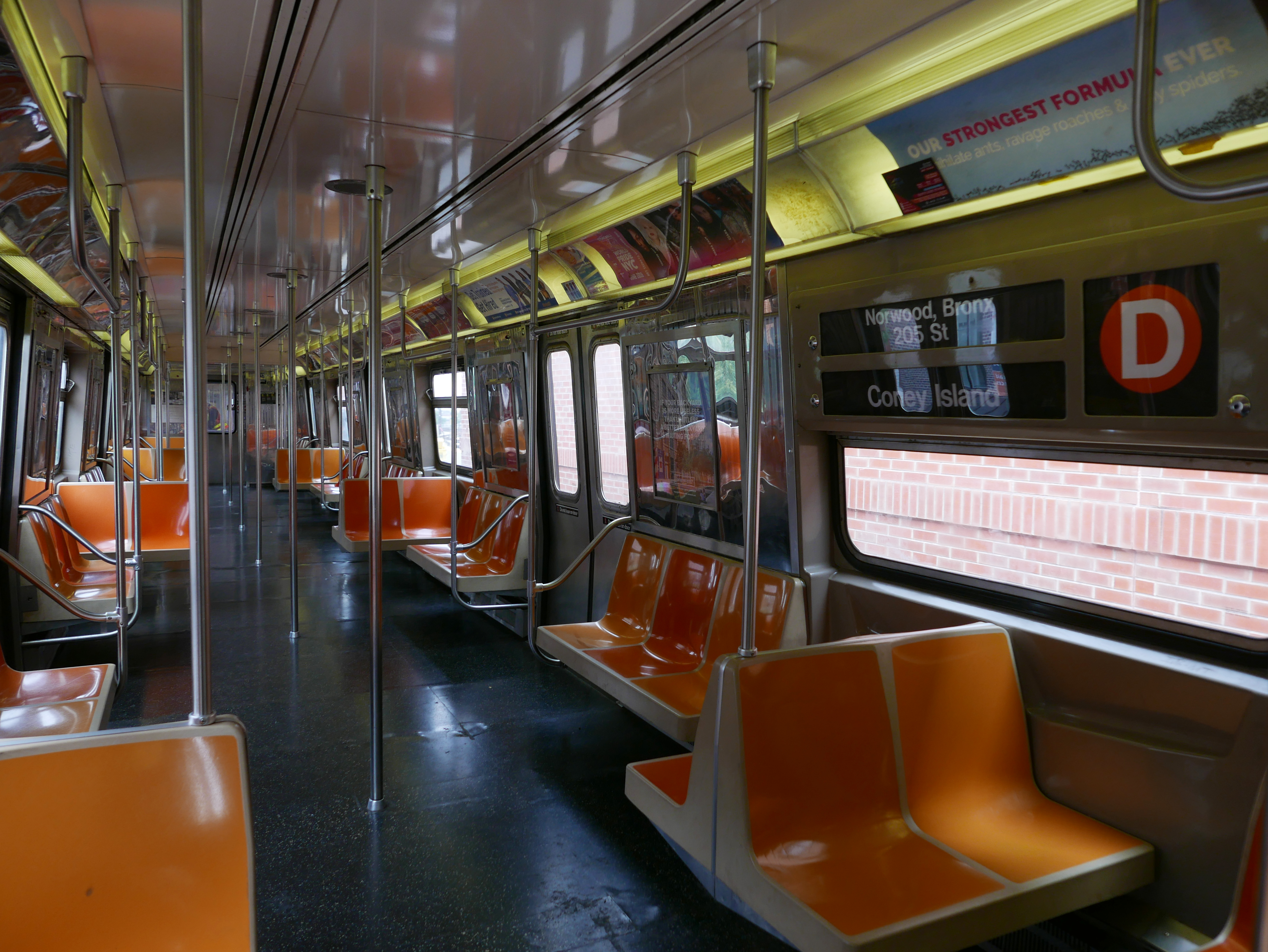 Taken from within a northbound R68 D train at Coney Island. Side rollsign in view. Facing B end of car.